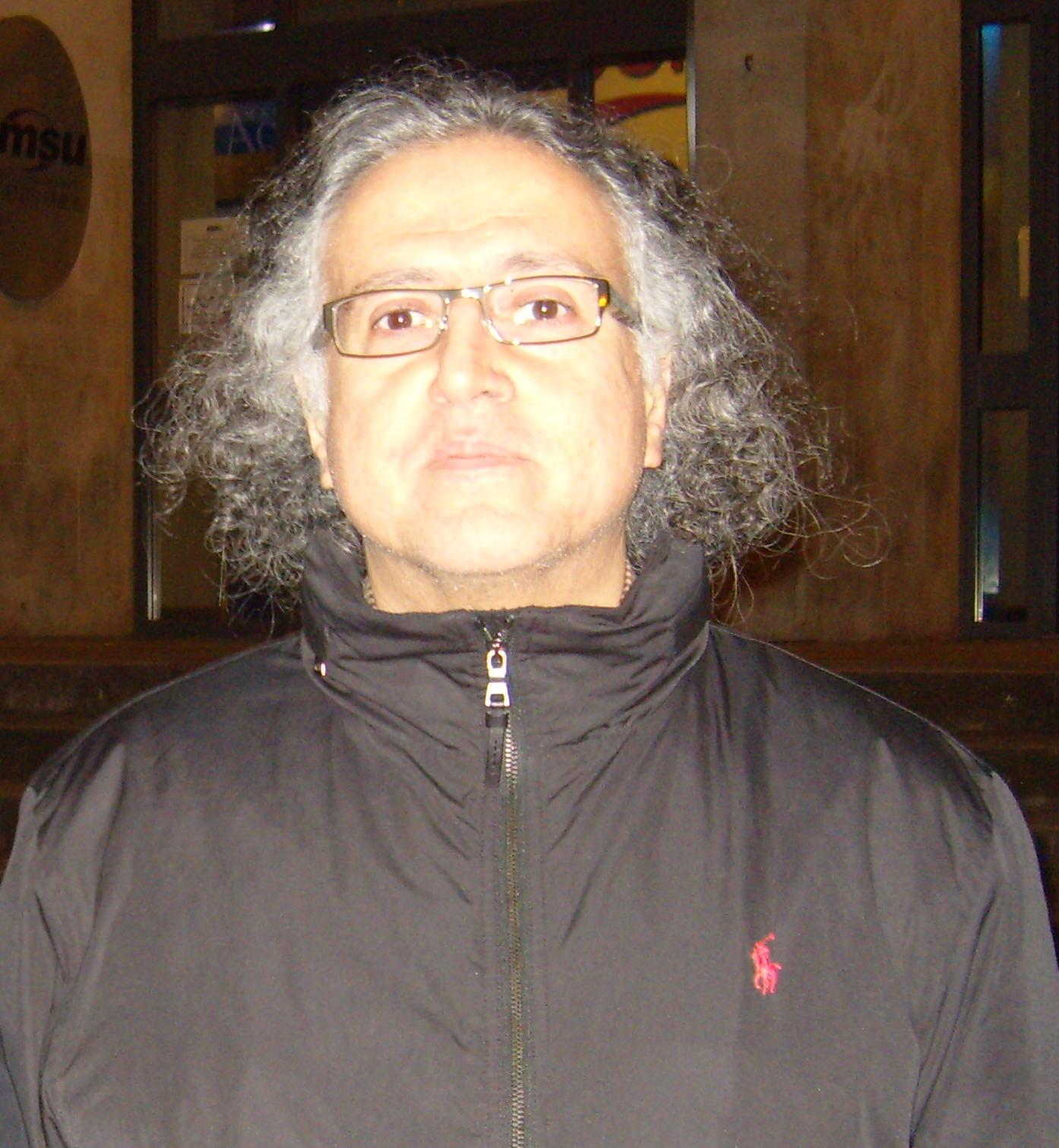 Dr As'ad AbuKhalil